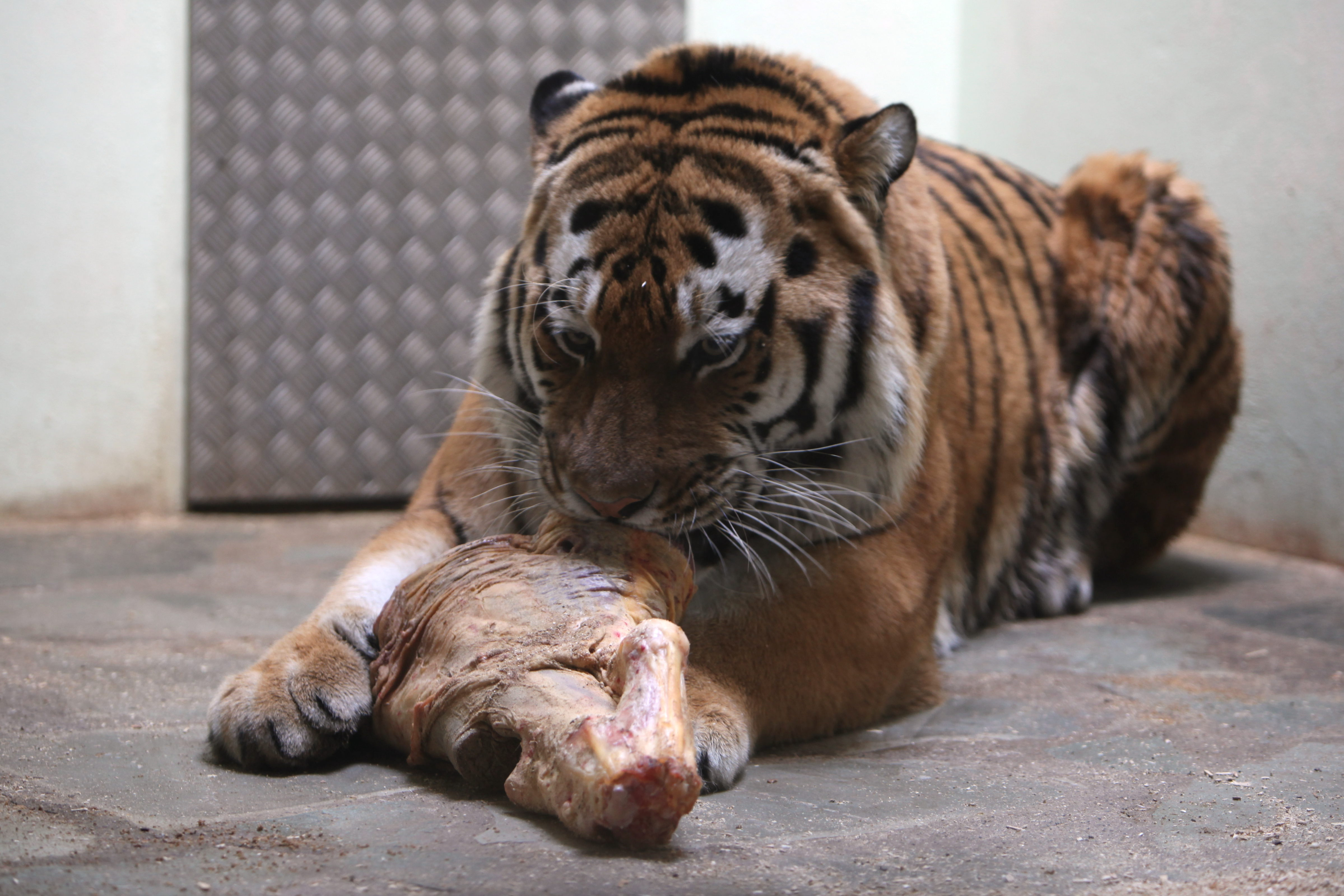 Female tiger eating in captivity.